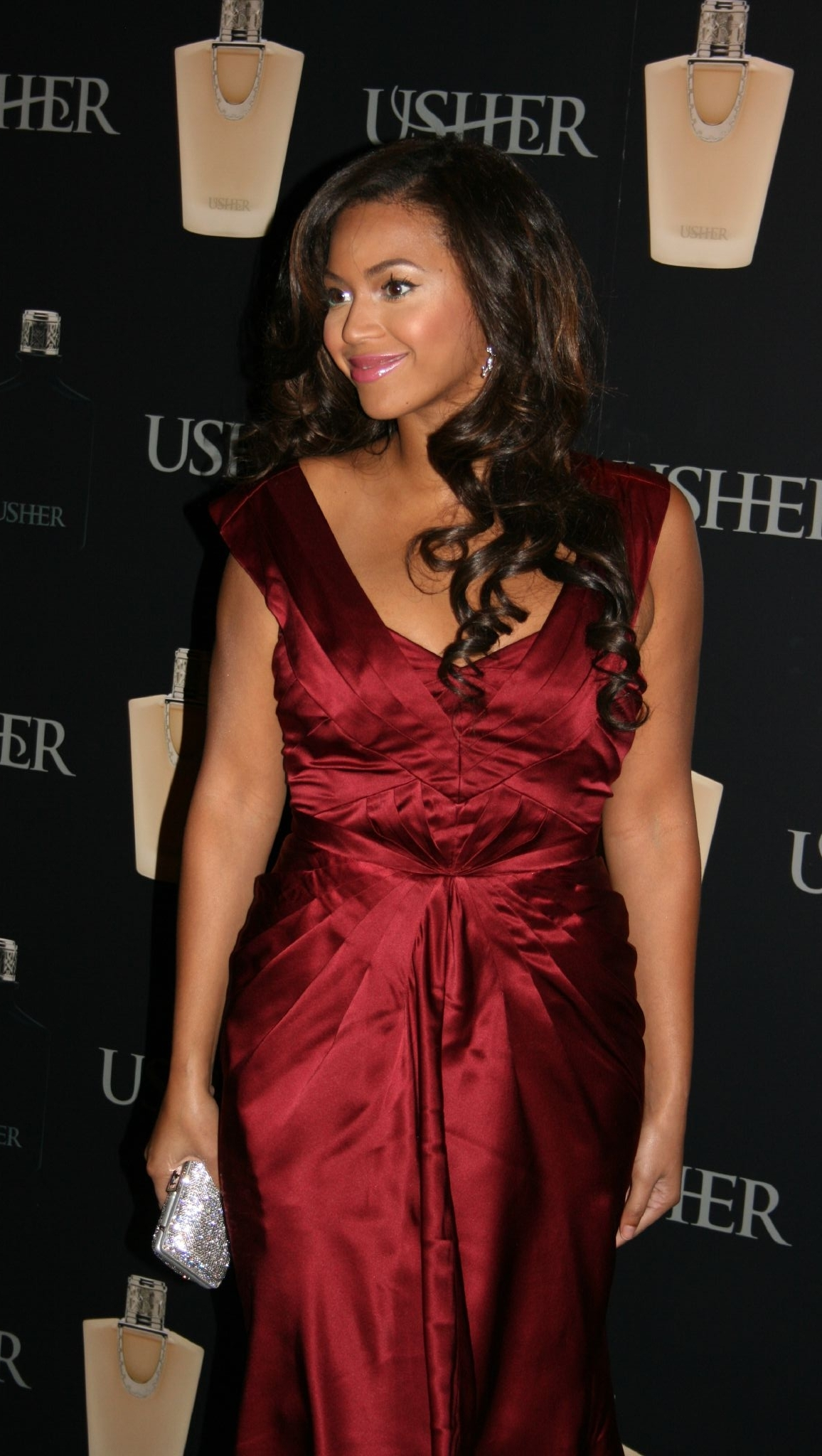 Beyoncé during a product launch of Usher Raymond.